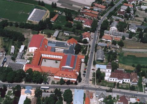 Hajdúsámson, Hungary, aerialphotography